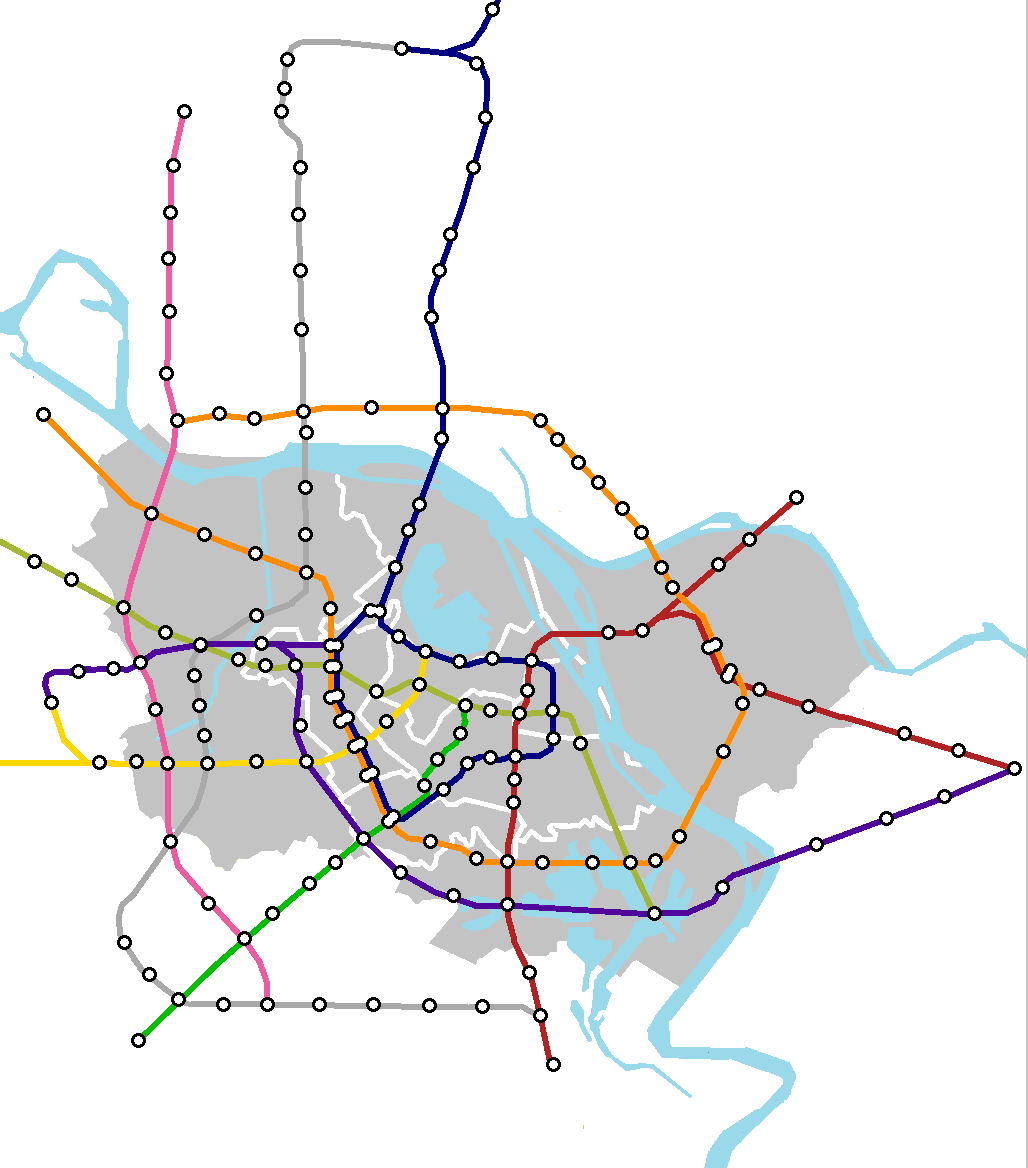 Hanoi Metro Masterplan